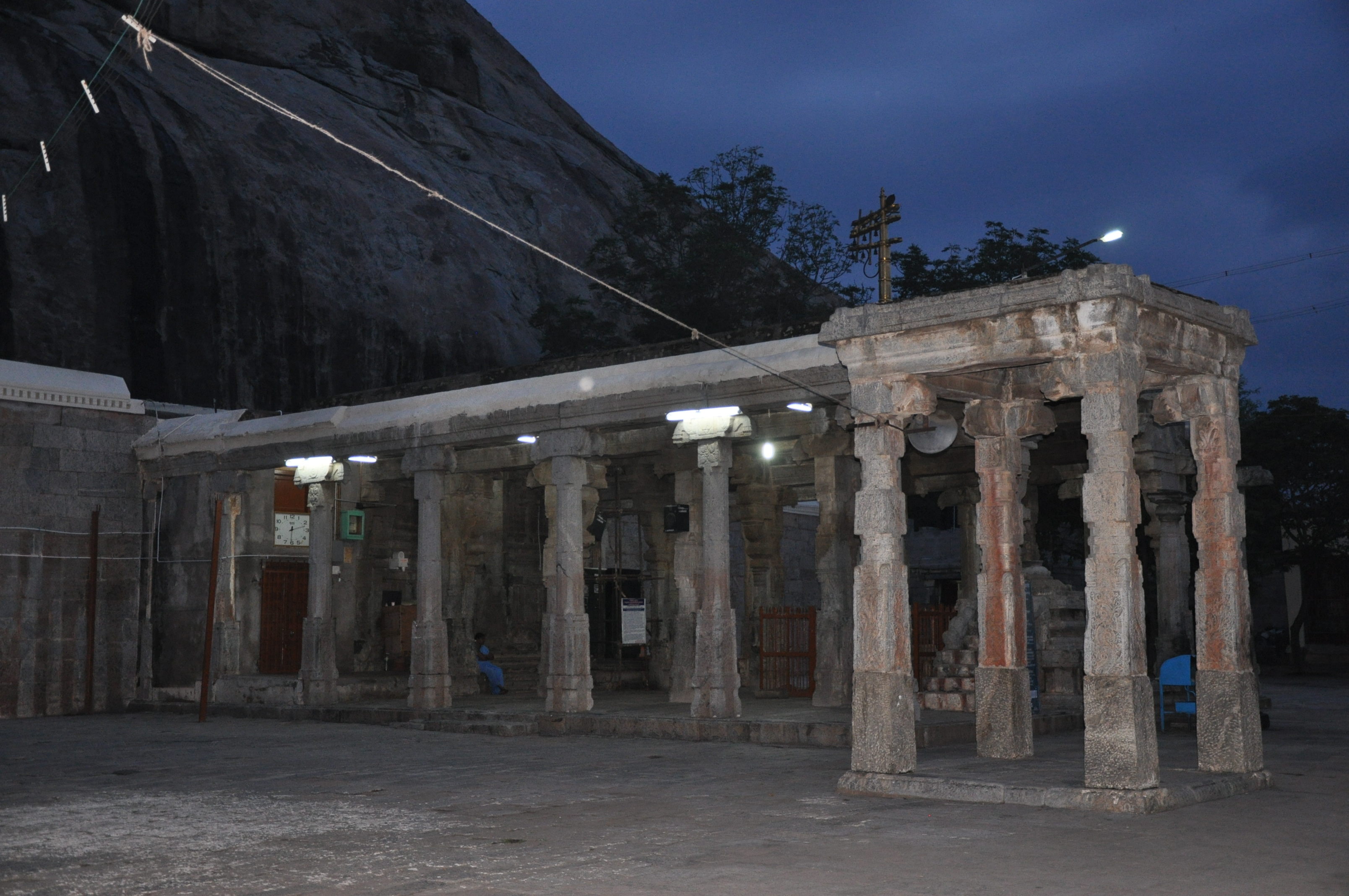 Mandapam of Narasimha Swamy Temple Wall.Location: Namakkal and district, Tamil Nadu, India.